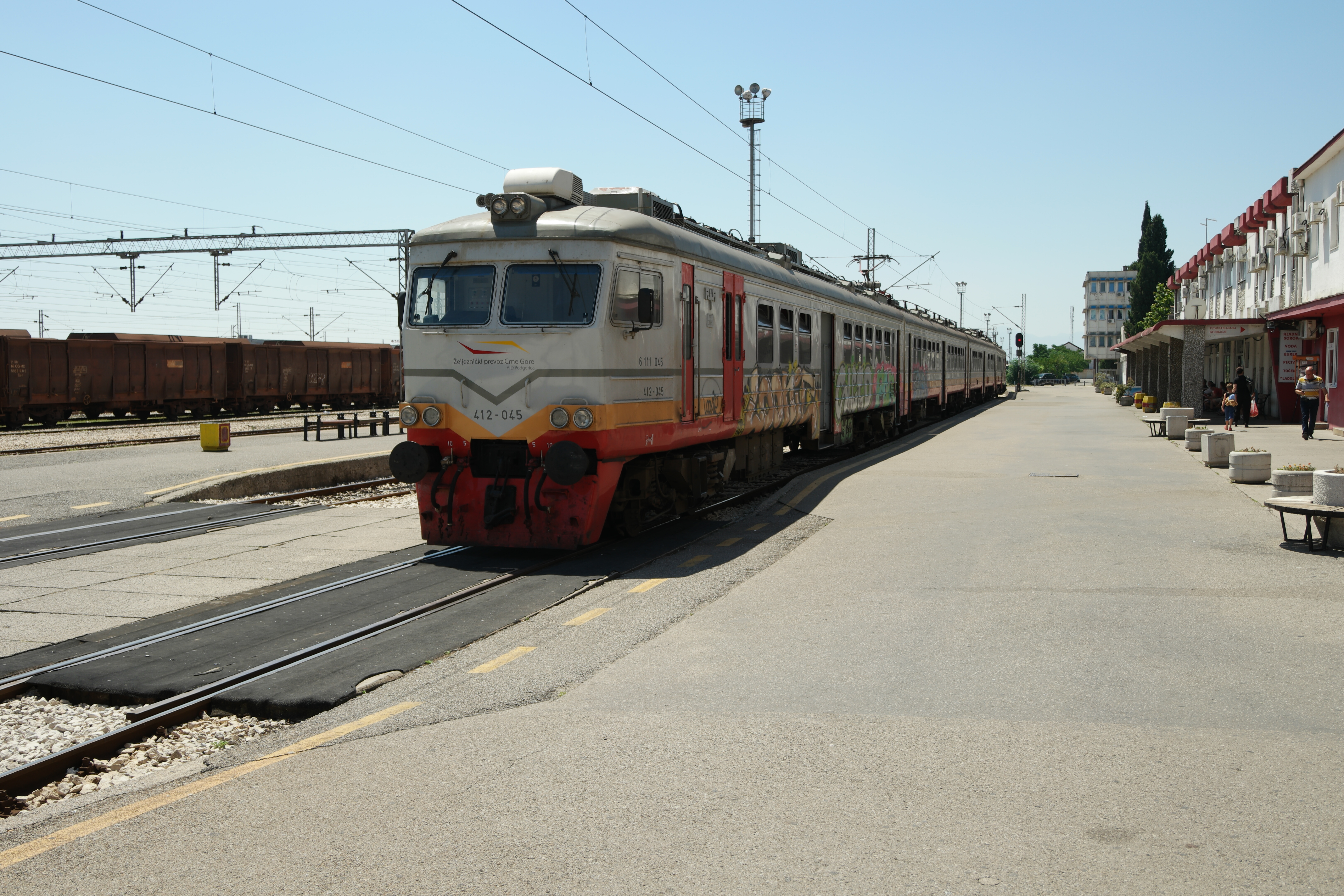 Local emu Podgorica main station